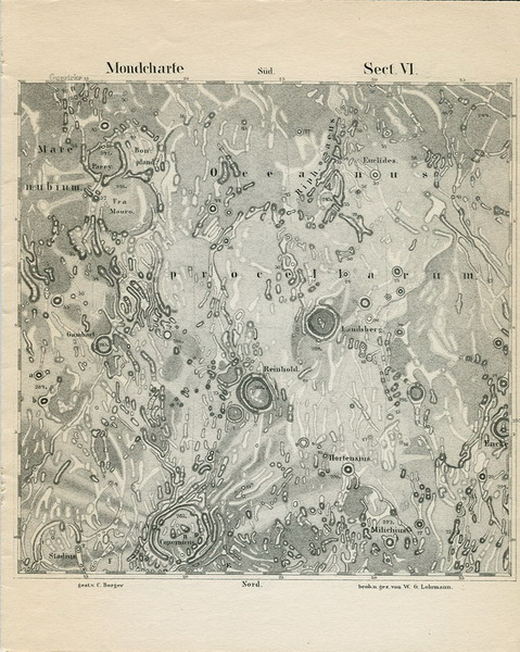 Map 06 of the maps of the Moon by Wilhelm Gotthelf Lohrmann edited by Johann Friedrich Julius Schmidt.